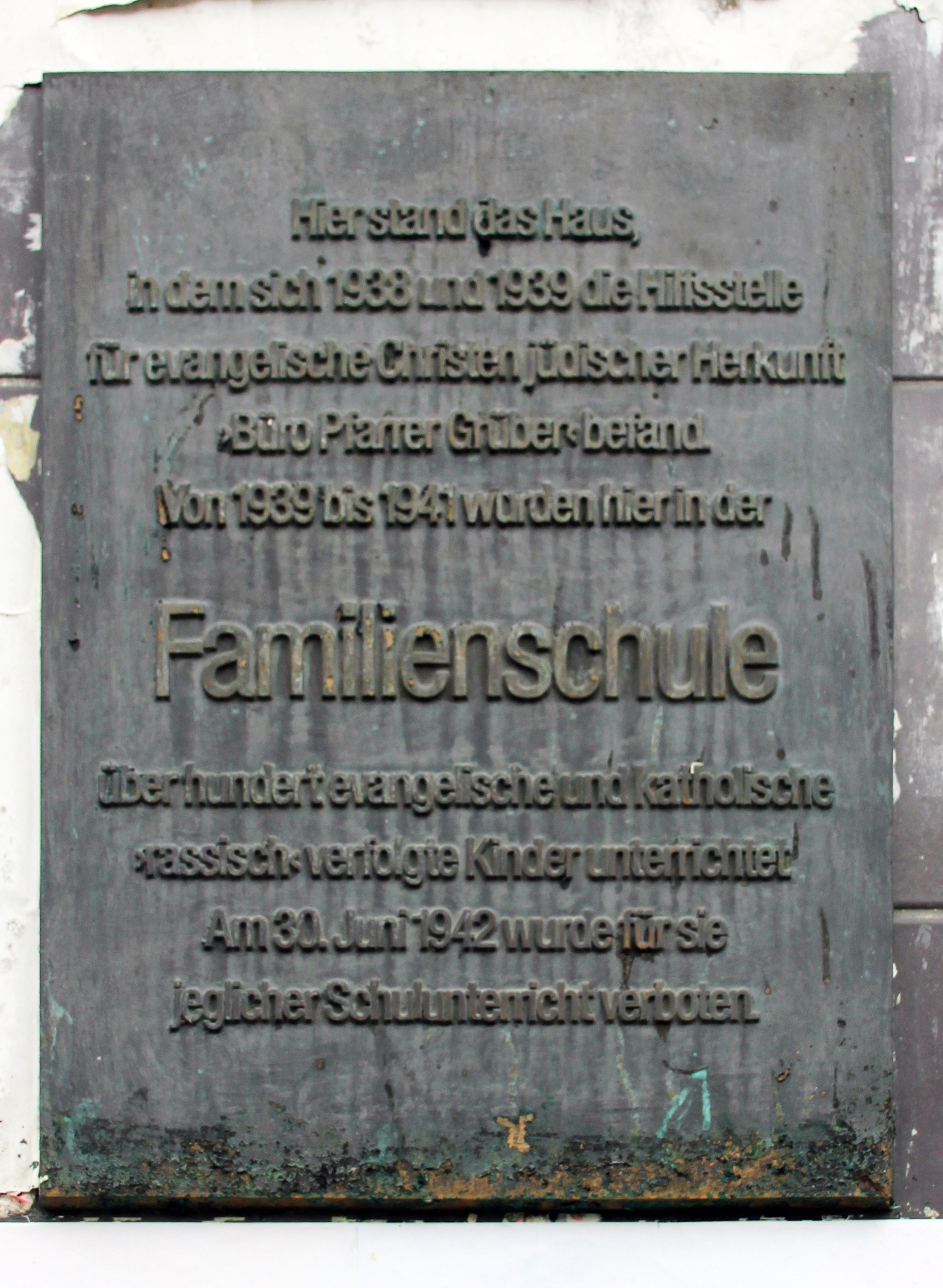 Memorial plaque, Büro Grüber, Oranienburger Straße 20, Berlin-Mitte, Deutschland